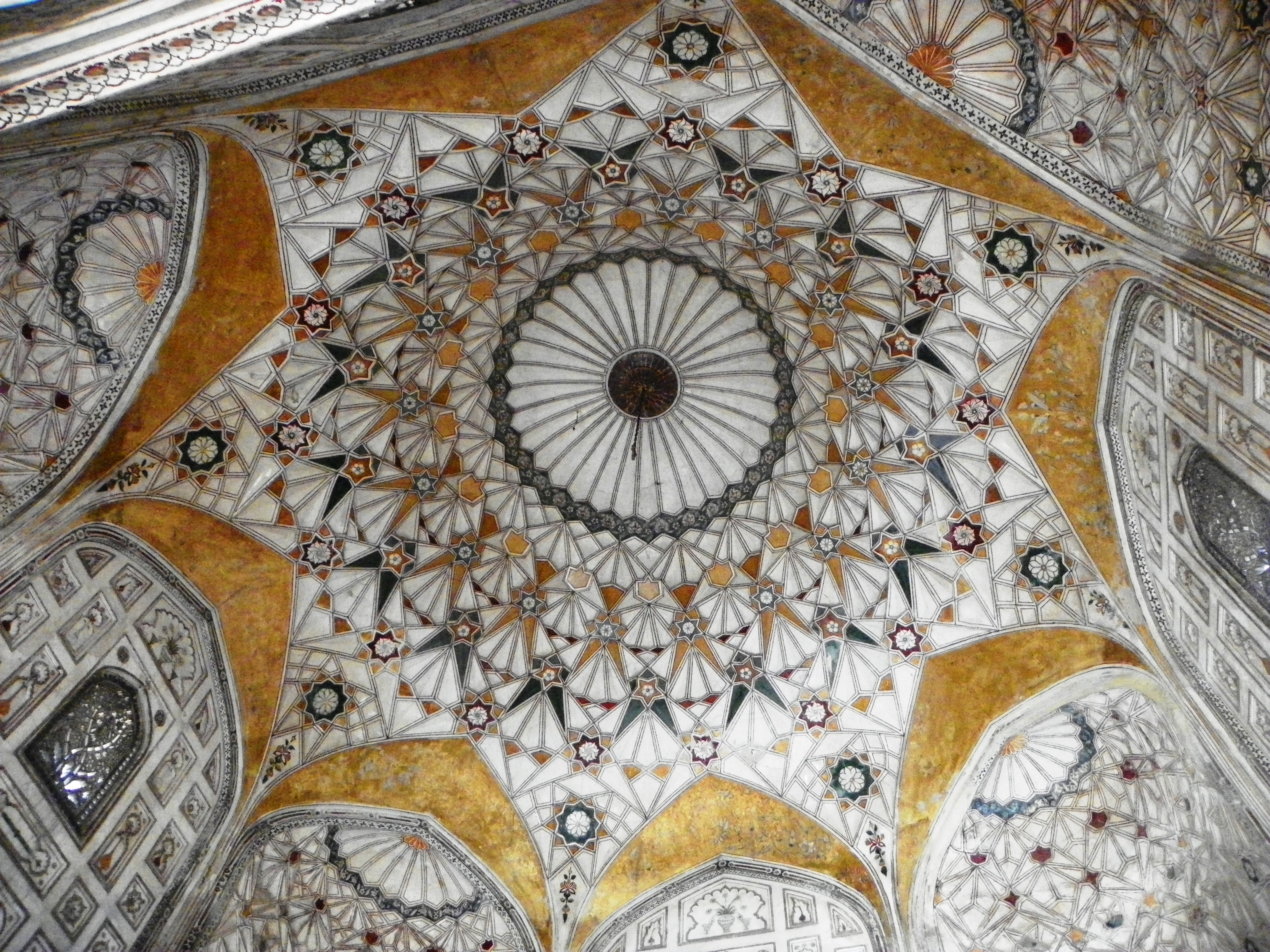 Khusru Bagh: Tomb of Sultan Khusru's Sister